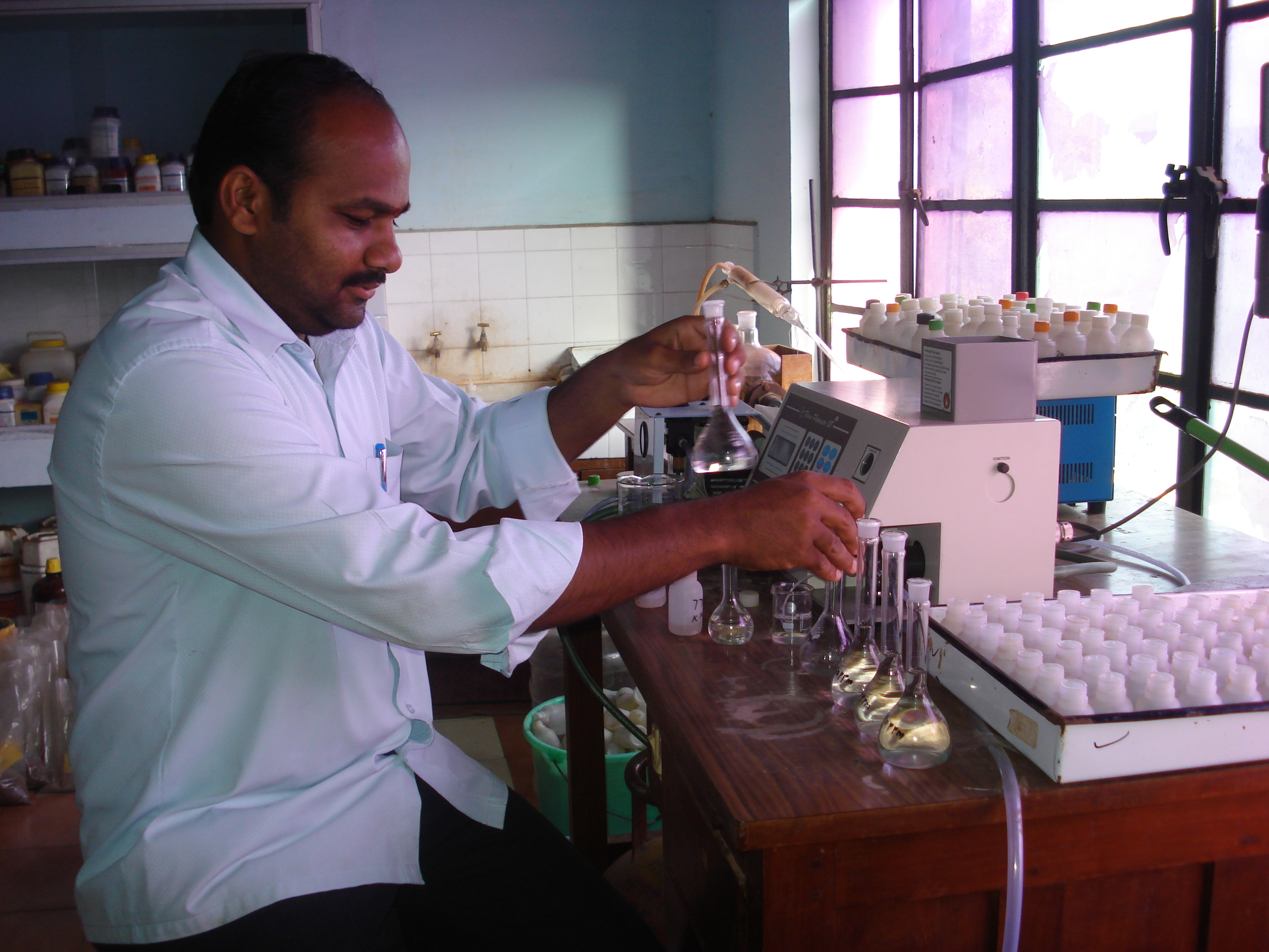 A research scholar analysing samples using flame photometer